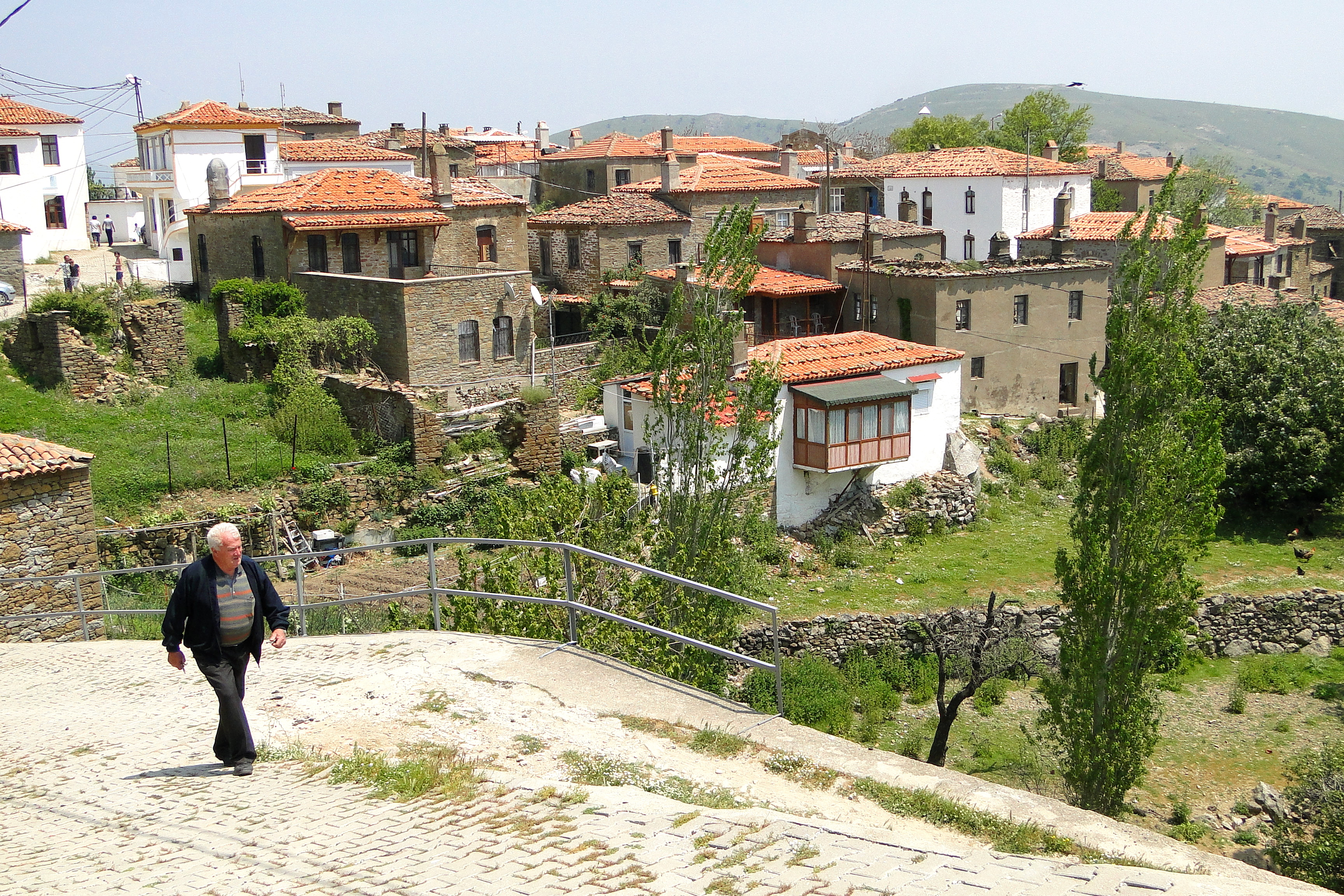 Village Scene - Tepekoy - Gokceada Island - Turkey - 04